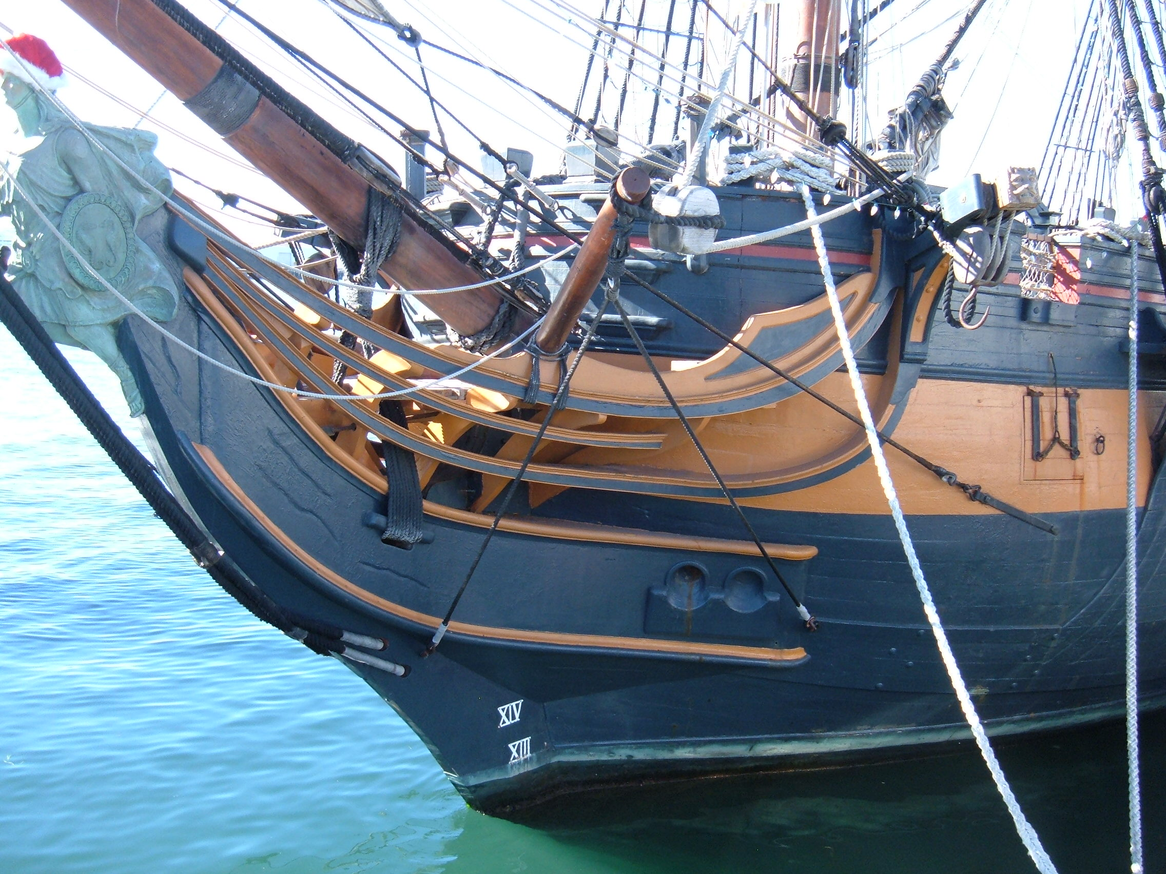 The port side of the HMS Surprise at the Maritime Museum of San Diego.